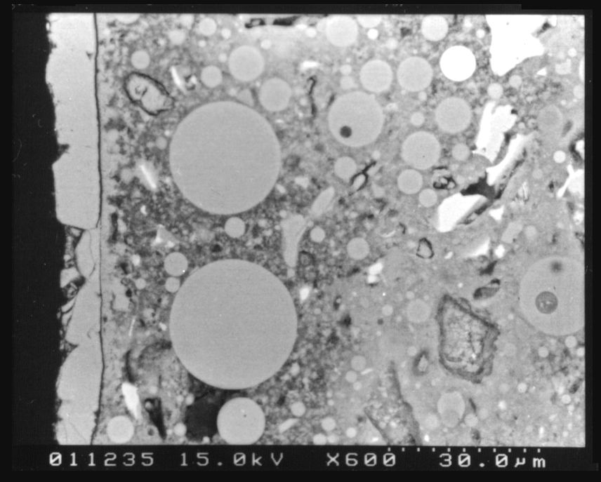 Image Description: SEM image of a self-compacting thin section (600 × magnification) Source: own photography (Alex.schroer) Photographer / Illustrator: Alex.schroer Date: 01.07.2001